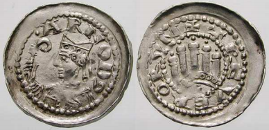 Silver penny of Arnold I of Vaucourt, Archbishop of Trier